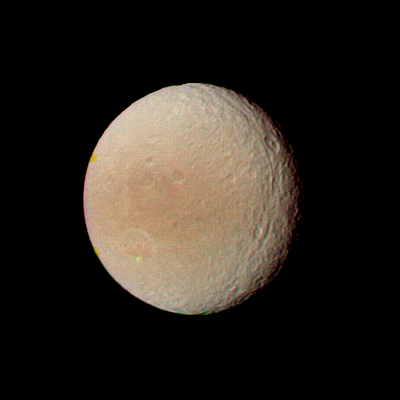 Voyager 2 obtained this image of Tethys on Aug. 25, when the spacecraft was 594,000 kilometers (368,000 miles) from this satellite of Saturn. This photograph was compiled from images taken through the violet, clear and green filters of Voyager's narrow-angle camera. Tethys shows two distinct types of terrain--bright, densely cratered regions; and relatively dark, lightly cratered planes that extend in a broad belt across the satellite. The densely cratered terrain is believed to be part of the ancient crust of the satellite; the lightly cratered planes are thought to have been formed later by internal processes. Also clearly seen is a trough that runs parallel to the terminator (the day-night boundary, seen at right). This trough is an extension of the huge canyon system Voyager 1 saw last fall. This system extends nearly two-thirds the distance around Tethys.